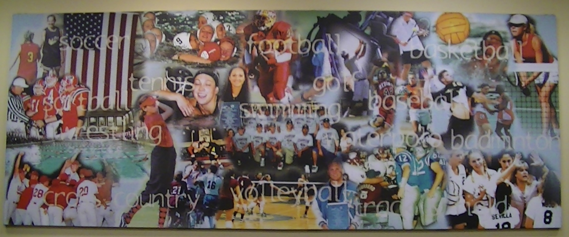 Collage of CIFSS sports